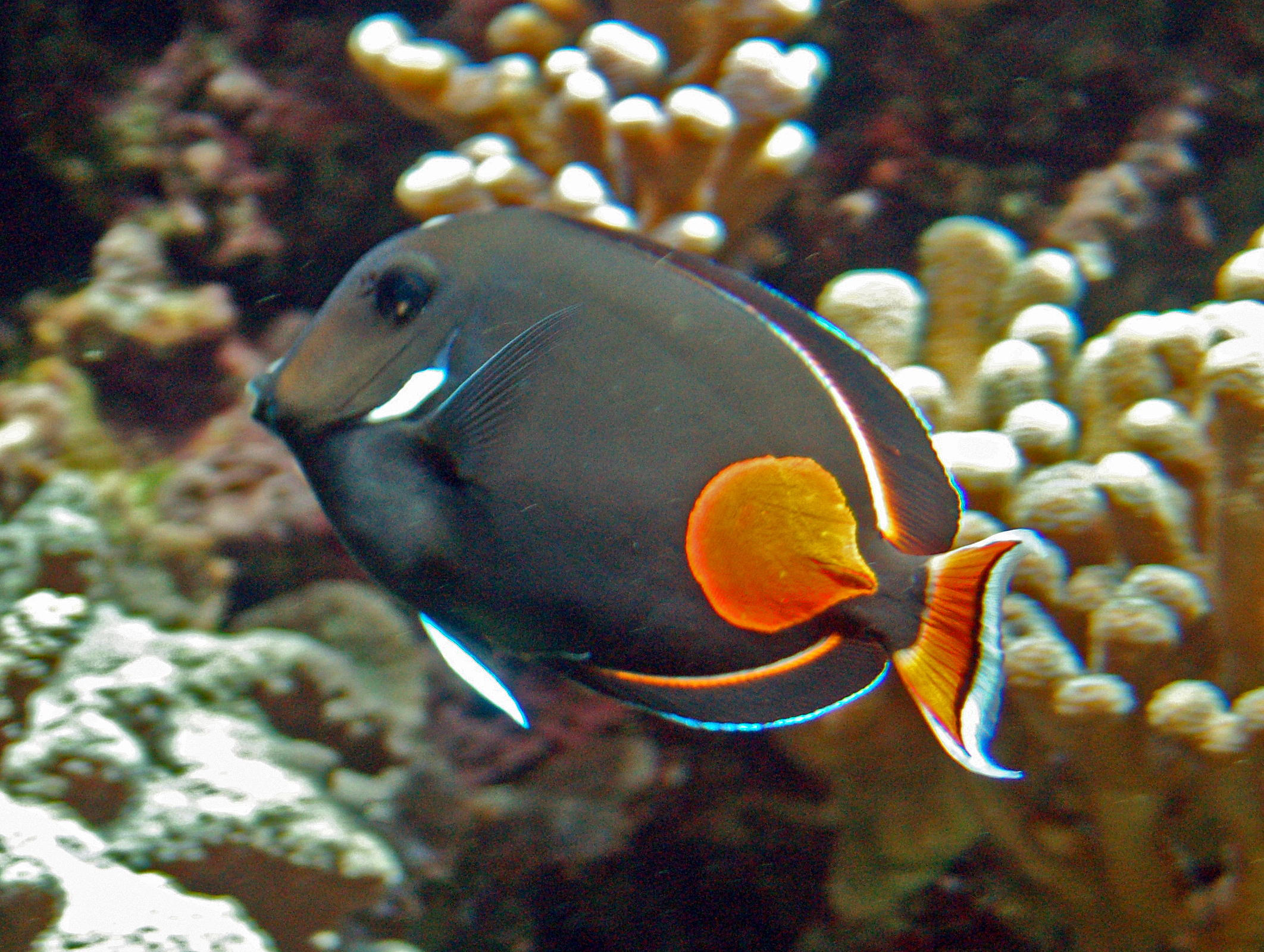 "Acanthurus achilles" at the Aquarium of Monaco